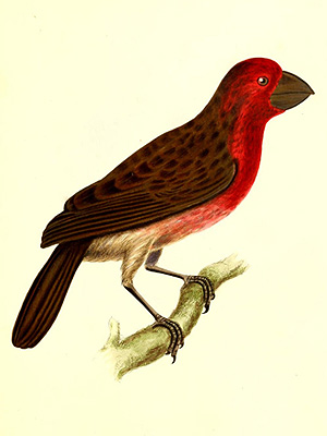 Bonin Grosbeak (Chaunoproctus ferreirostris), male